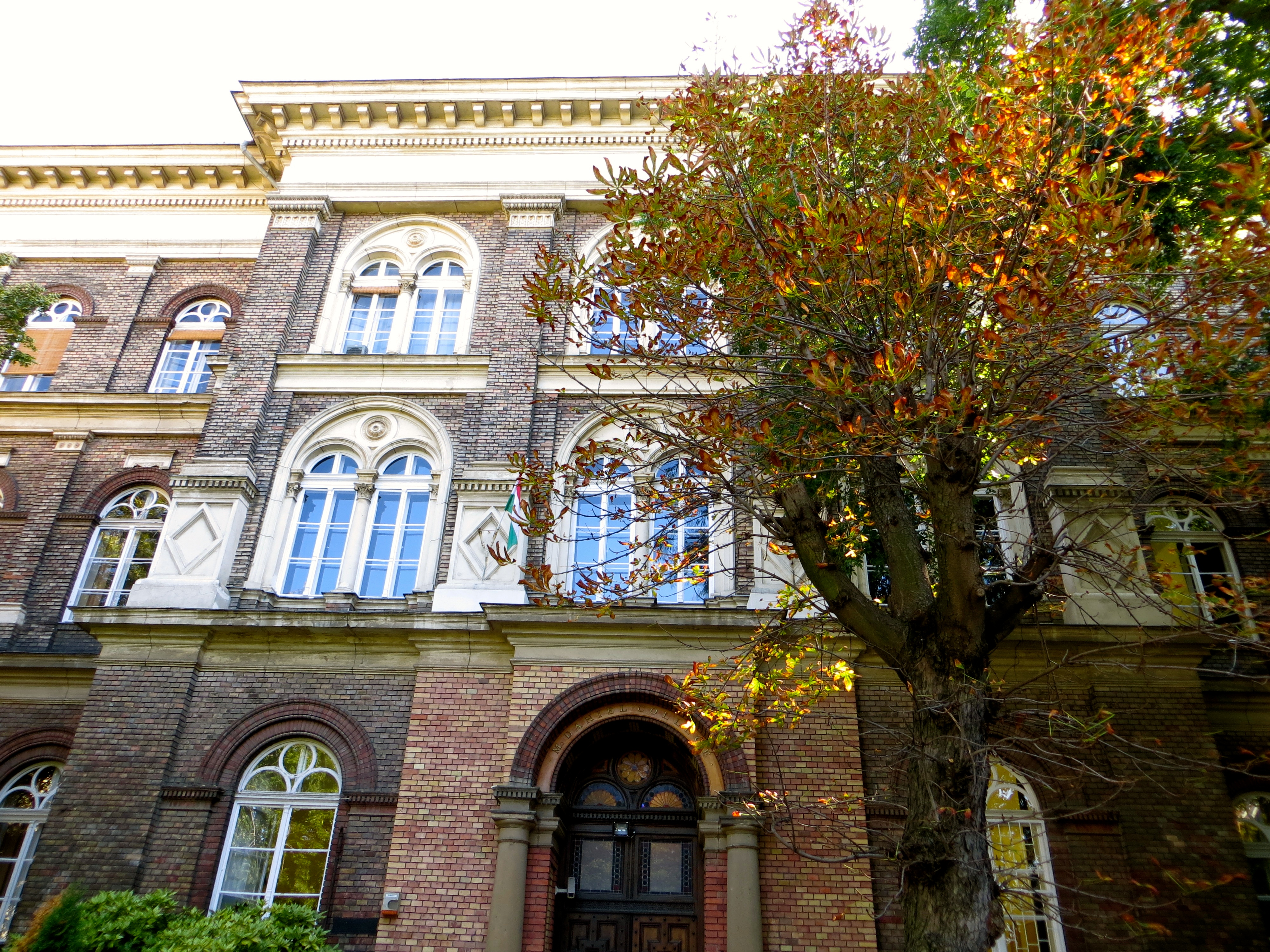 A photo of the front of the schoolbuilding College Int'l in Budapest, Hungary. To be used on Budapest Semesters in Mathematics.